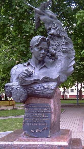 The Karatkevich monument in Orsha